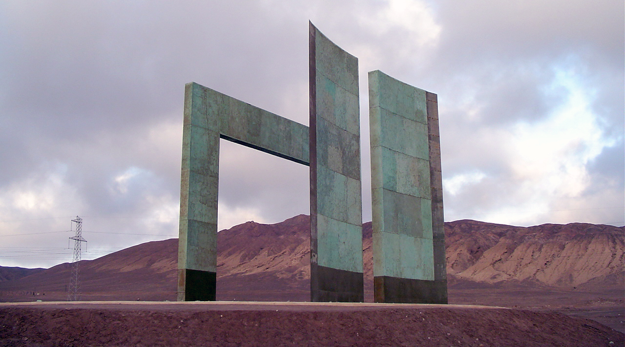 Tropic of Capricorn milestone, solar observatory.